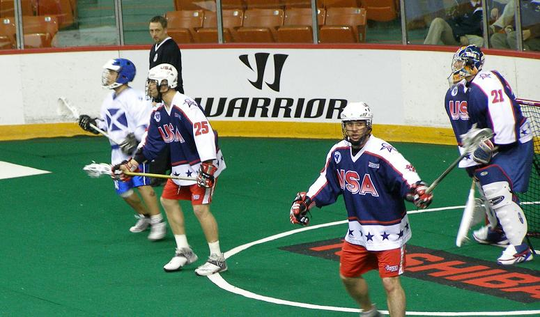 USA national indoor lacrosse team at 2007 World Indoor Lacrosse Championship in Halifax